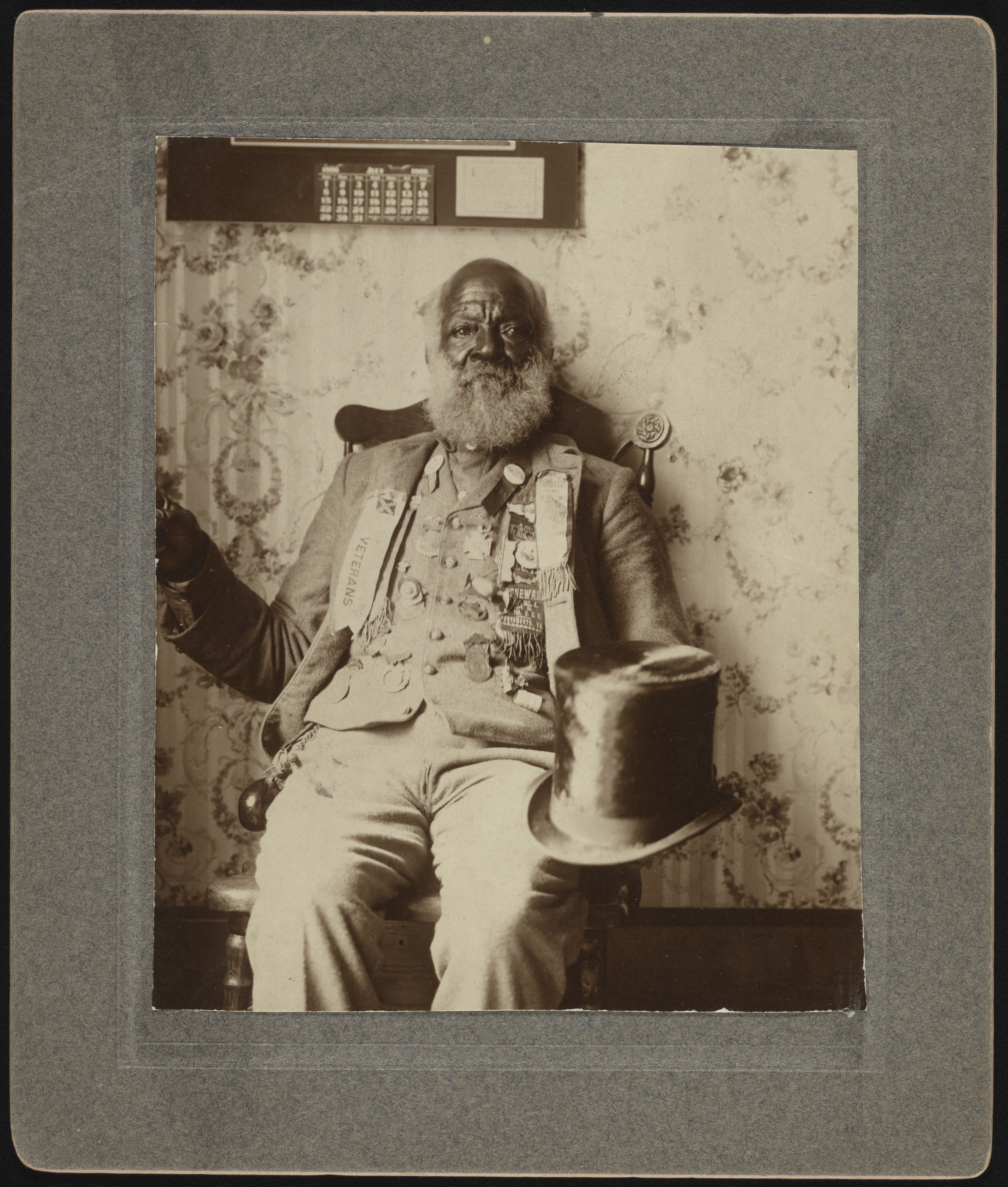 Title: Jefferson Shields, former personal servant to Colonel James Kerr Edmondson of Field and Staff, 27th Virginia Infantry Regiment Abstract/medium: 1 photograph : print ; sheet 13 x 10 cm, mount 16 x 14 cm.